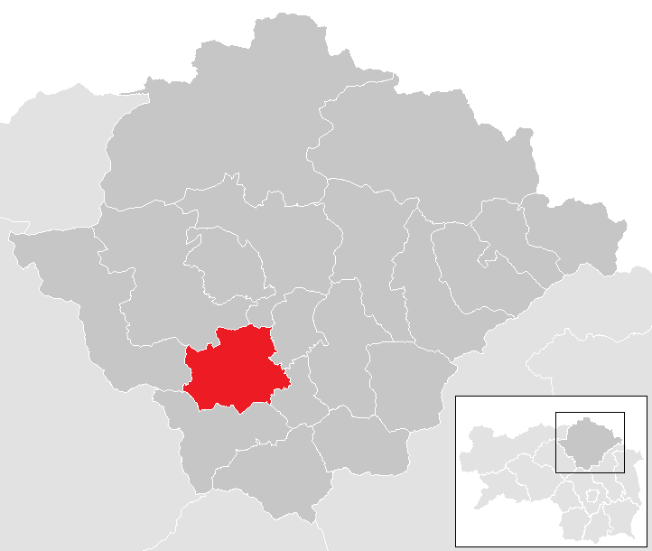 district Bruck-Mürzzuschlag